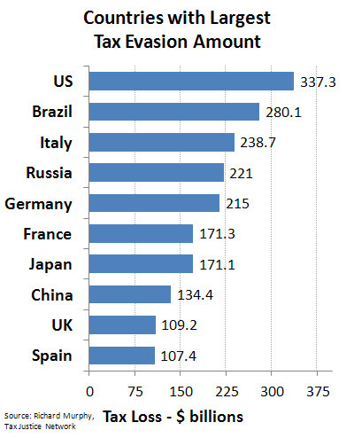 Ten countries that have the largest absolute amount of tax evasion bar graph.